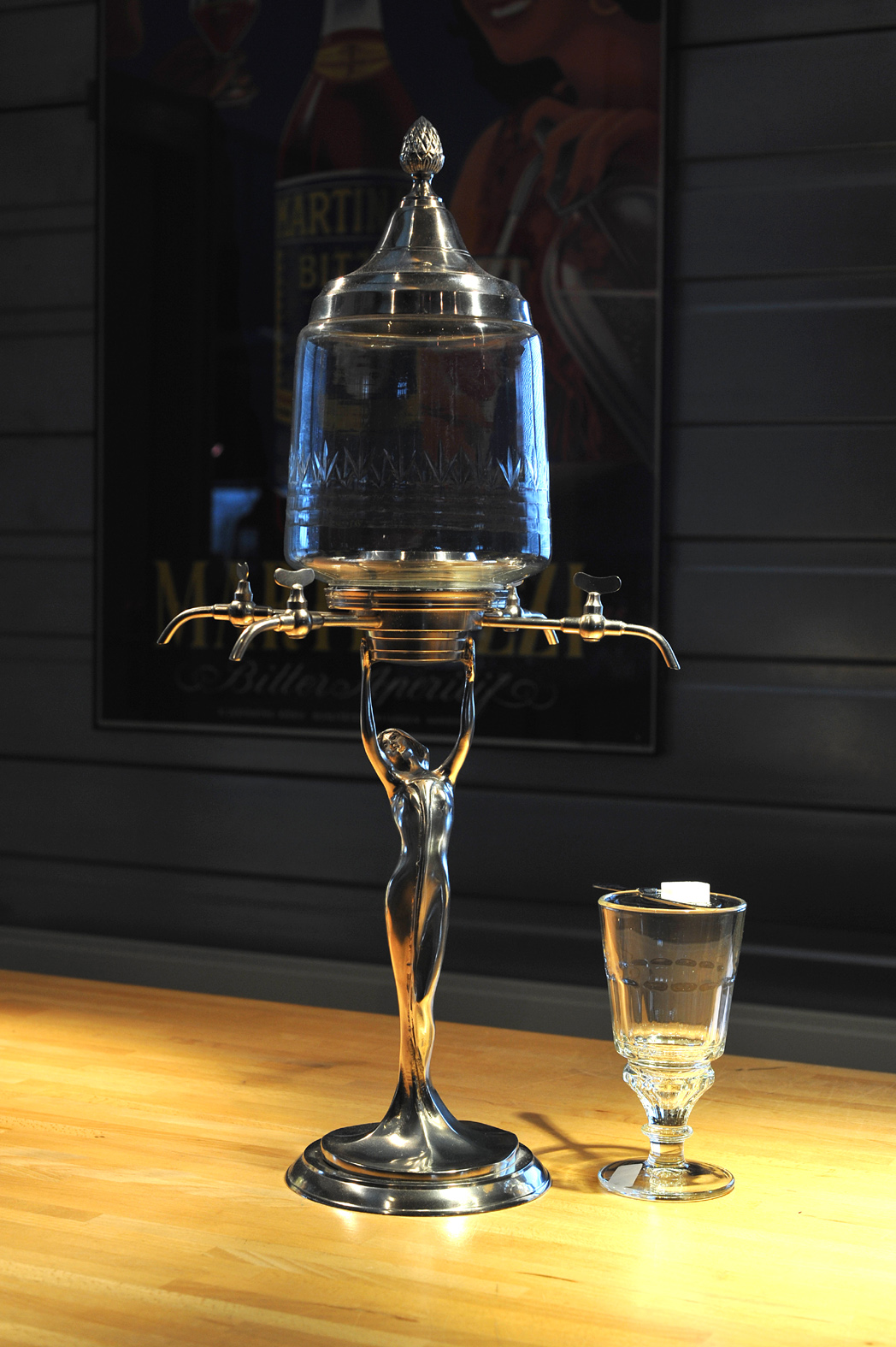 Absinthe fontaine in a classic design.